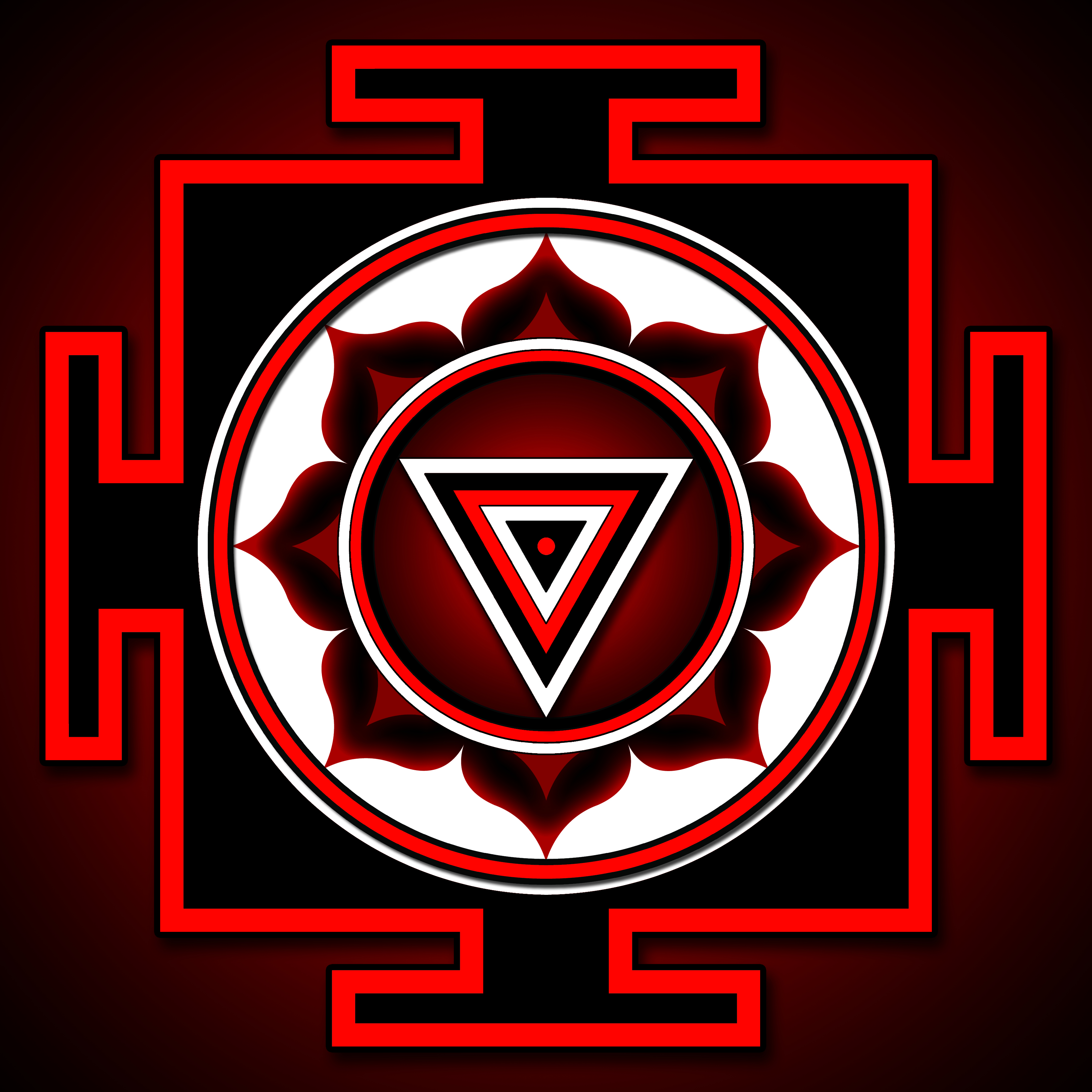 The sacred yantra of Kali, rendered accurately with some added effects such as drop shadows, outlines, and gradients.